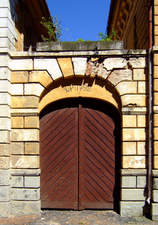 A gate into Bodenbach (Podmokly) Barracks in Terezín. Aufnahme: 1. Juli 2006 Url